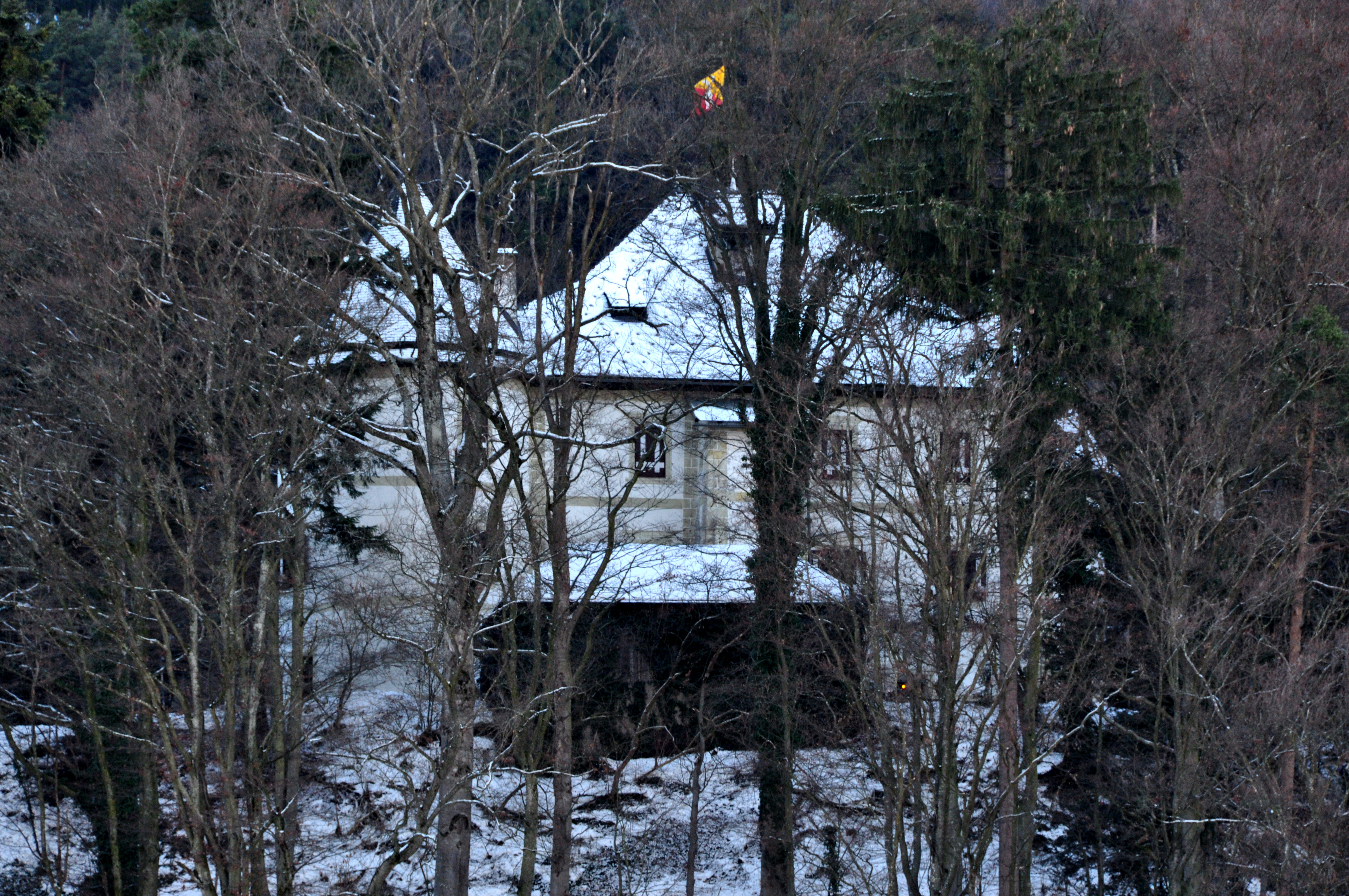 Castle Kellerberg, market town Weissenstein, district Villach Land, Carinthia, Austria, EU